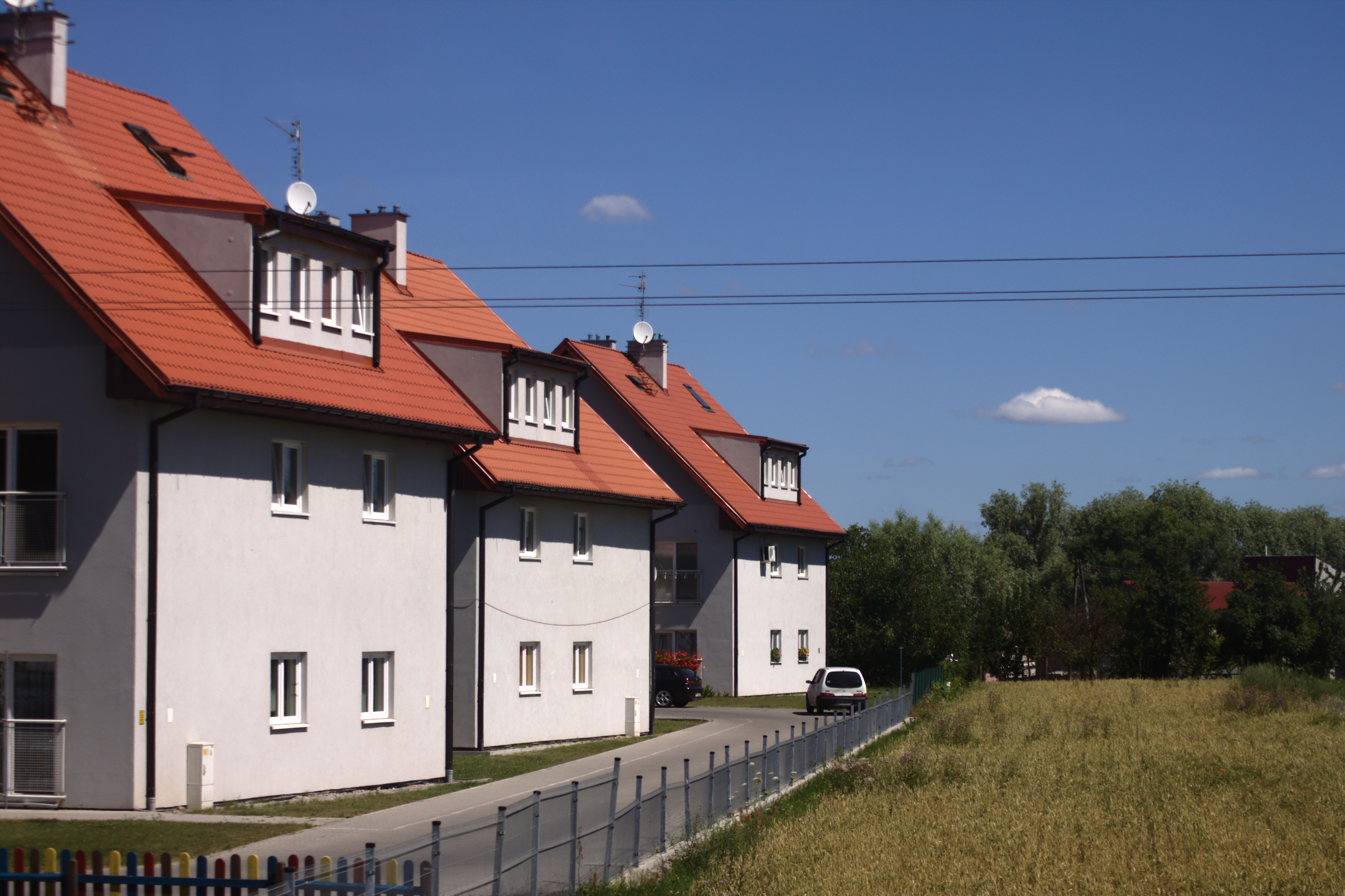 Three new houses at the very edge of the town of Groblice, Lower Silesian Voivodeship, Poland